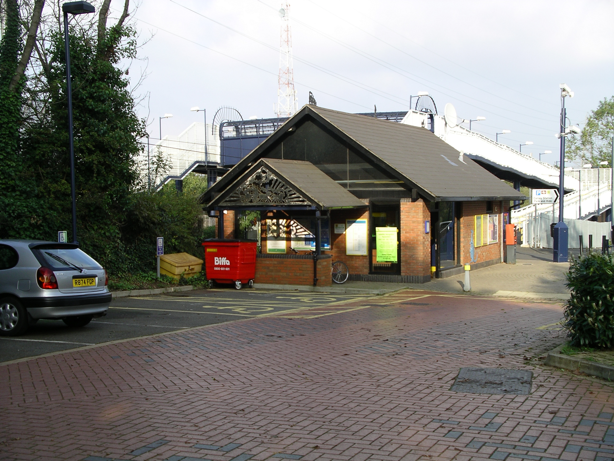 Canley Railway Station, Coventry, from the car park. Photo taken on 14 October 2006.